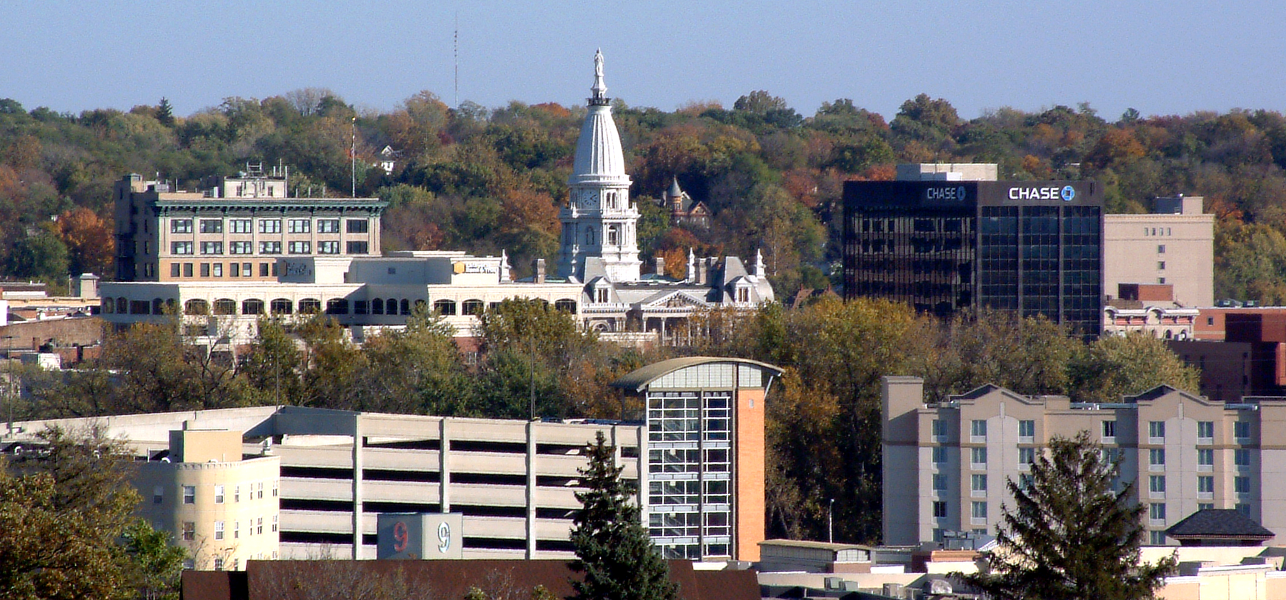 Looking east toward downtown Lafayette from West Lafayette in Tippecanoe County, Indiana.